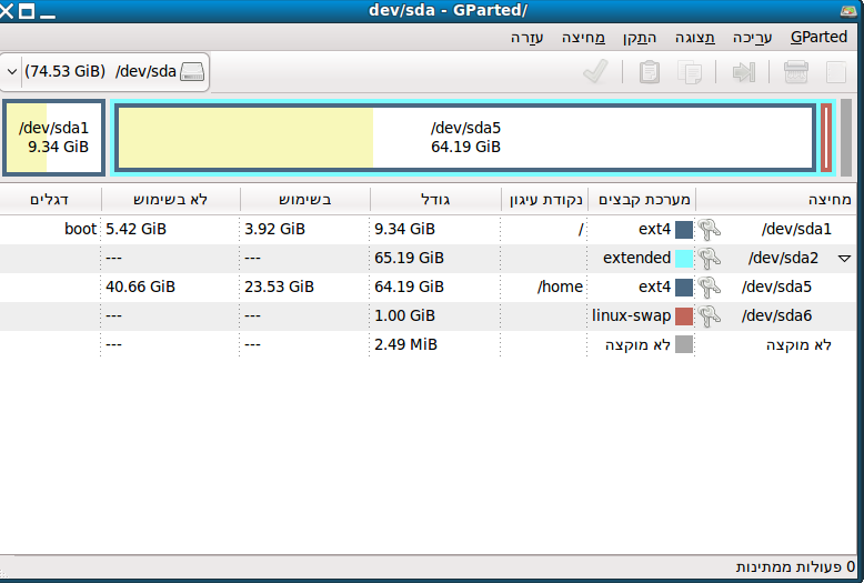 screenshot of Gparted 0.70 Hebrew interface